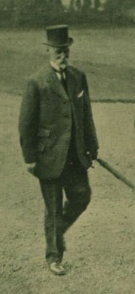 Thomas Lavery, MP for Down at Stormont